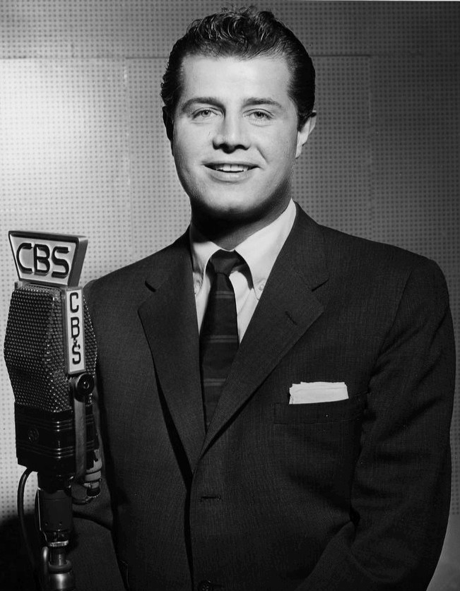 Photo of radio and television broadcaster Fred Robbins.